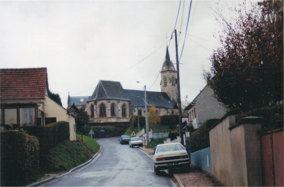 XVth century church Notre Dame de l'Assomption in Vauchelles-les-Quesnoy (Somme - France)